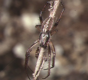 male Neoscona theisi from Okinawa.